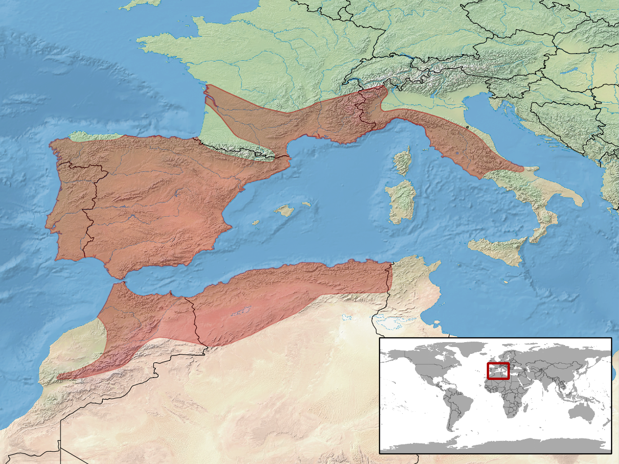 geographic distribution of Coronella girondica (Native: Algeria; France; Italy; Monaco; Morocco; Portugal; Spain; Tunisia)